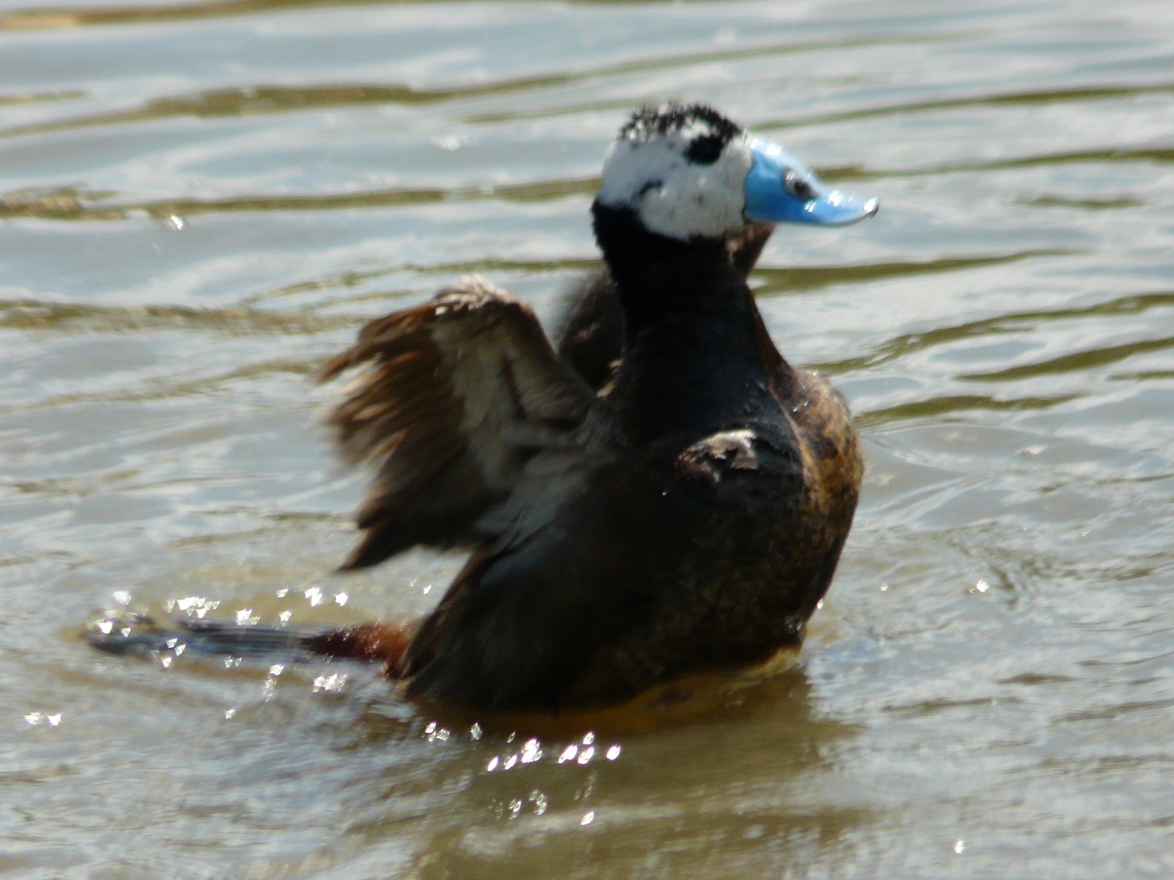 Male White-headed duck (Oxyura leucocephala) in flight.